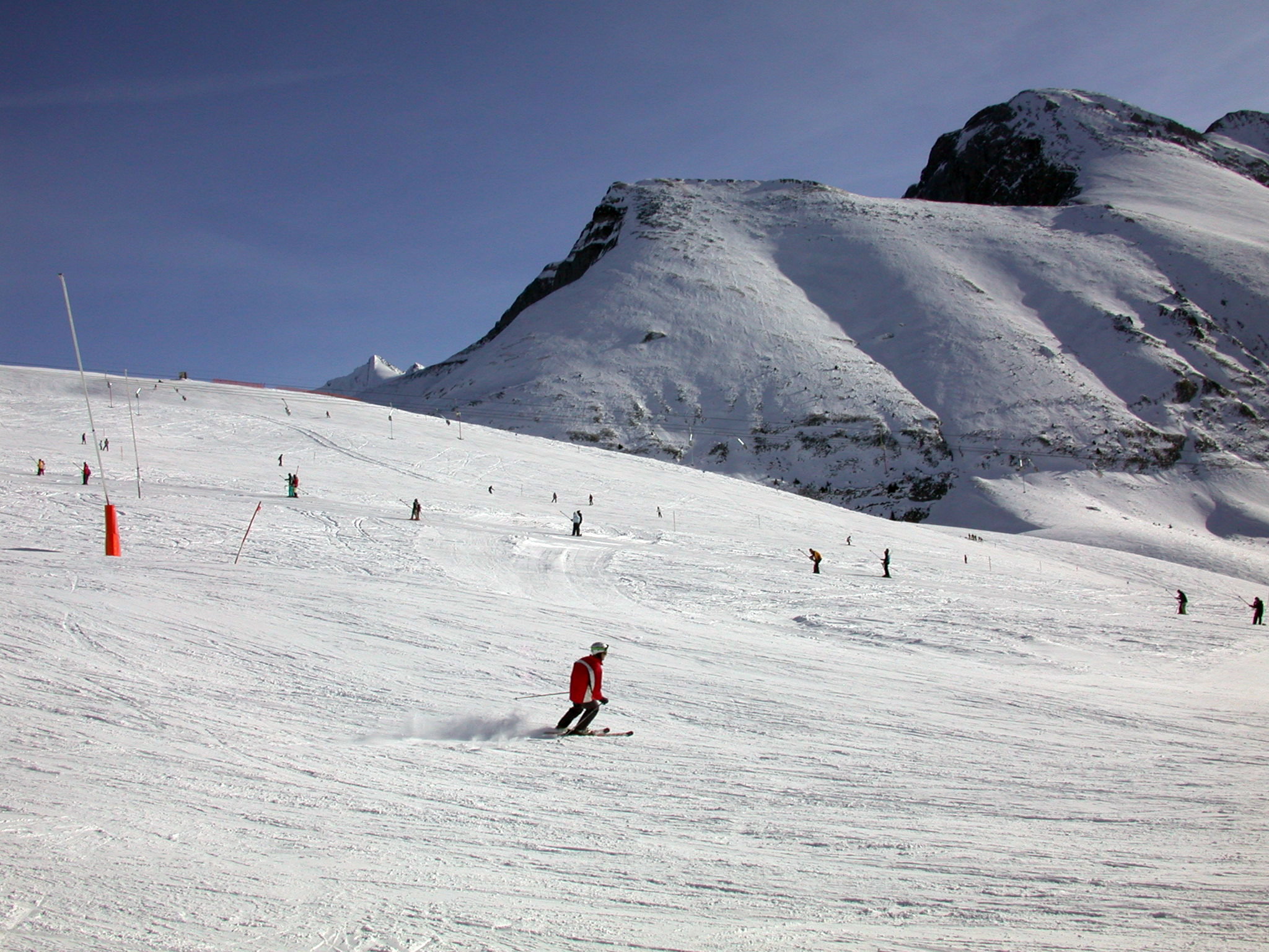 Picture of a man who is skiing (Elsigenalp in Switzerland)